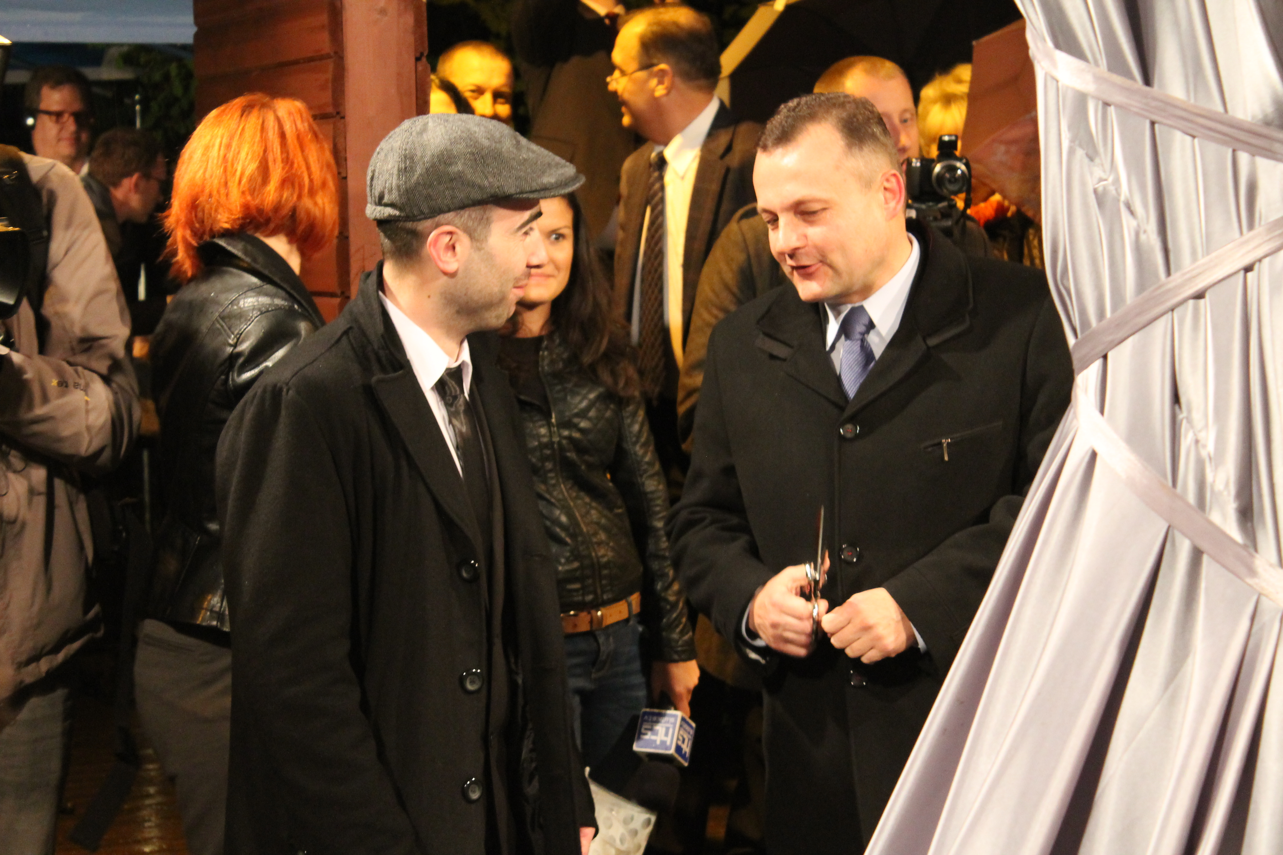 The unveiling of the Wikipedia monument